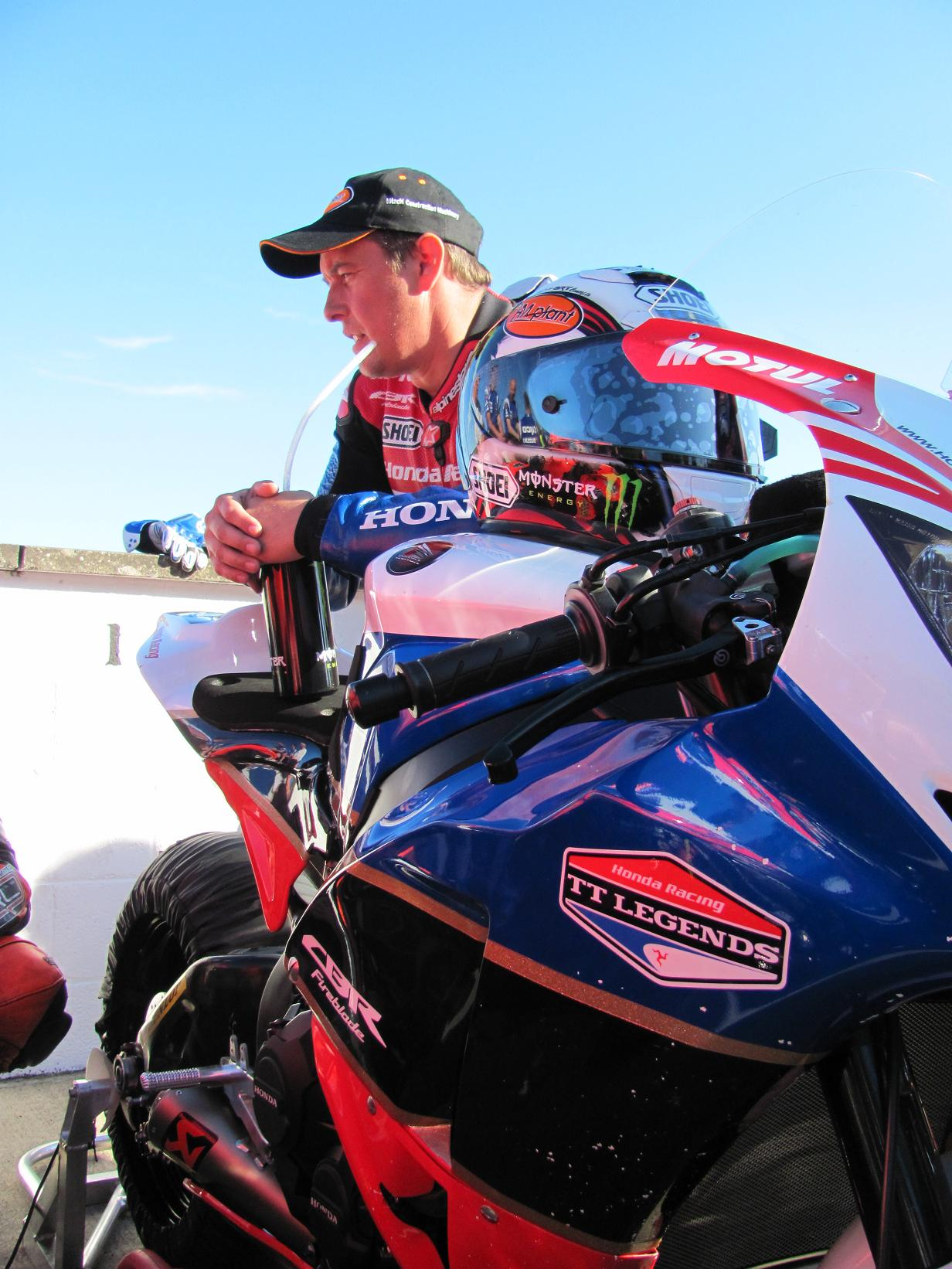 Description : Isle of Man TT Races Date : 28th May 2012 Source : / Agljones at en.wikipedia Permission See below.